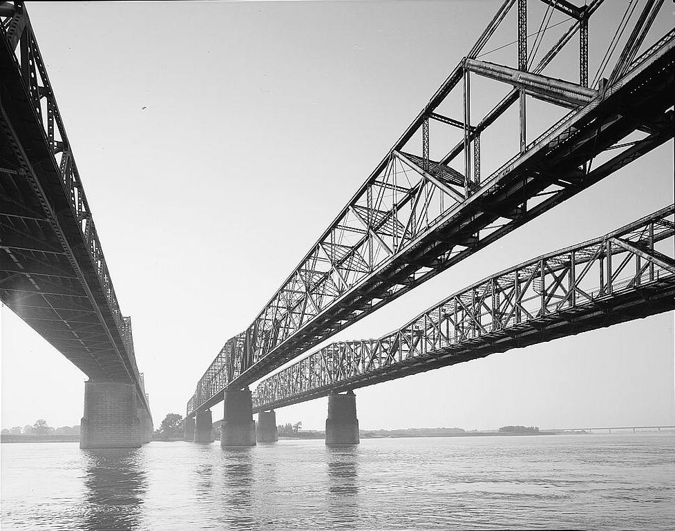 Memphis, 1985 Memphis & Arkansas Bridge, left Memphis Bridge, center Harahan Bridge, right (Hernando de Soto Bridge is some 2 miles / 3 km further upstream.) (Caption corrected to correct name of Memphis & Arkansas Bridge per its nameplate. --RBBrittain 05:38, 6 August 2007 (UTC) ) (Caption corrected as to Hernando de Soto Bridge. --AHert (talk) 16:43, 31 March 2015 (UTC)) This picture does not have anything to do with the "Hernando de Soto Bridge". That bridge is considerably farther to the north, and it is a much, much more modern bridge.47.215.183.159 06:00, 24 August 2017 (UTC) This image was found at the Library of Congress HAER archive entry with the original caption: "1. OVERALL VIEW OF BRIDGE (CENTER). VIEW TO SOUTHWEST. HAER TENN,79-MEMPH,19-1" It is a part of the Historic American Engineering Record collection of photos. Image taken by Clayton B. Fraser, August 1985. Note found on caption page These photographs are Government material and are not subject to copyright. However, the courtesy of a credit line identifying the Historic American Engineering Record and the photographer would be appreciated. Hernando de Soto Bridge